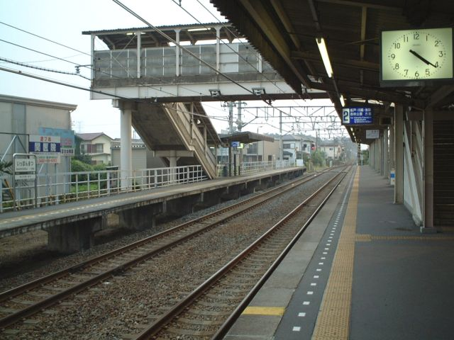 Ippommatsu Station on the Tobu Ogose Line, before extension of platform roof and installation of platform edge sensors